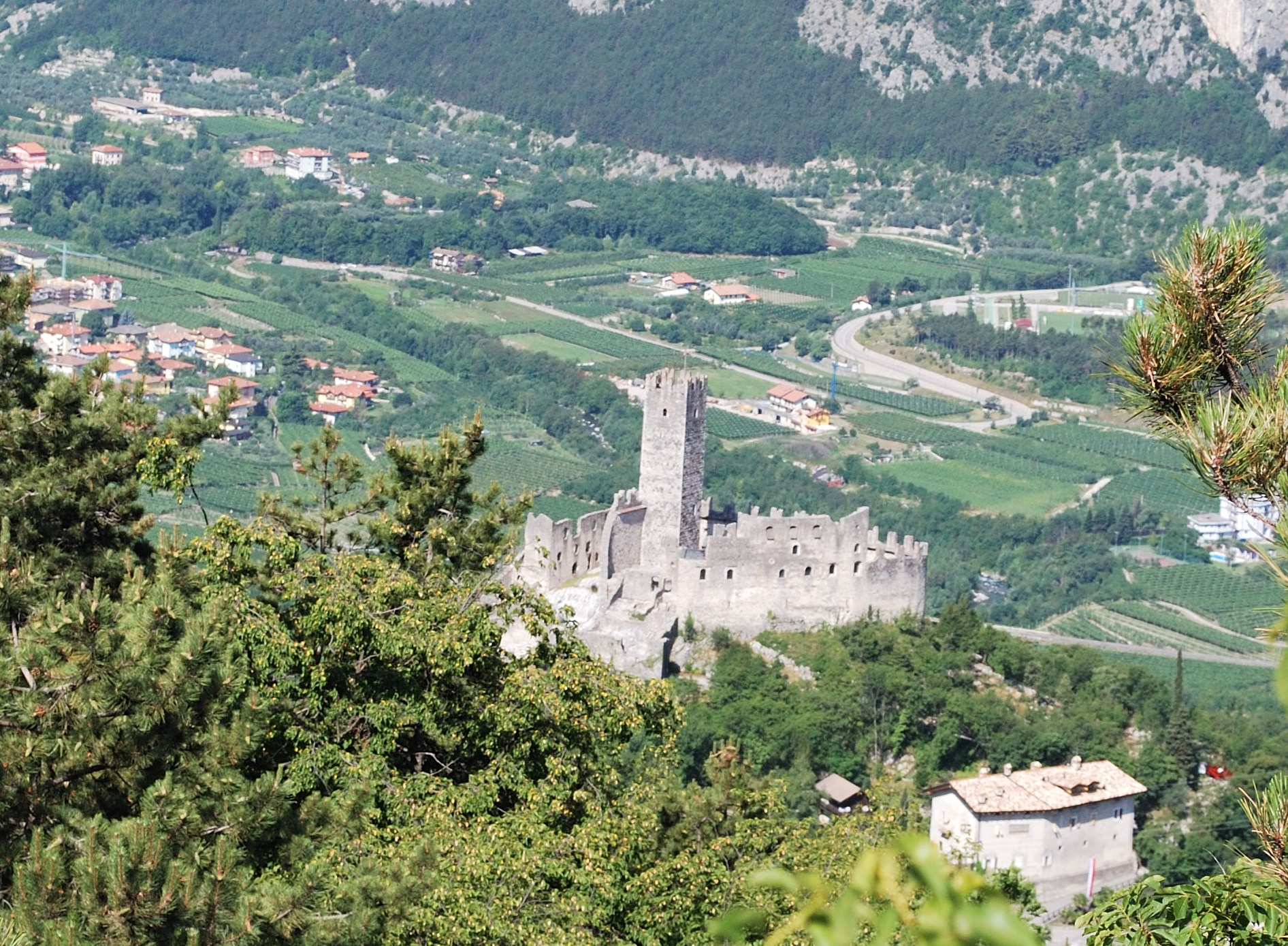 Drena im Trentino